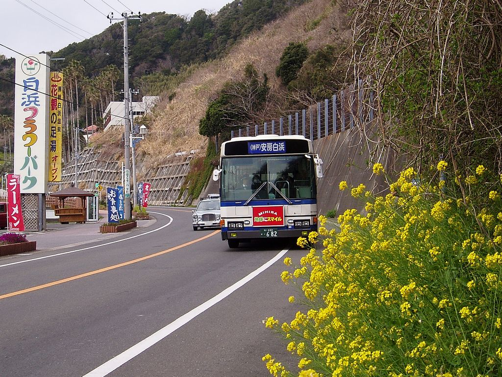 JR Bus Kanto M537-97303